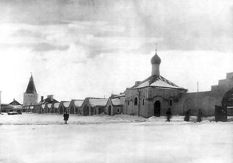 Chapel in Pokrovsky gorodok (Tsarskoye Selo)